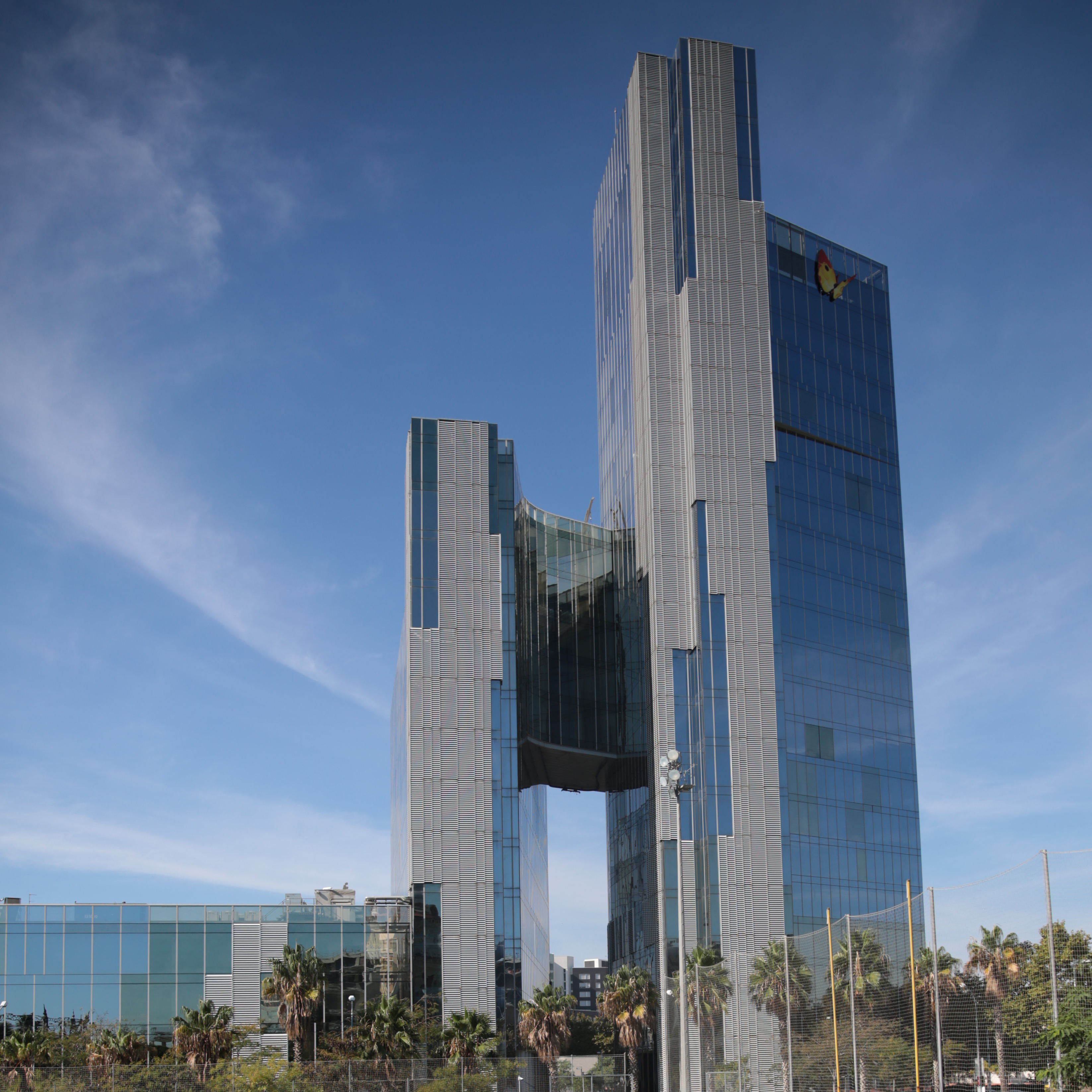 Gas Natural Building, Barcelona, Spain